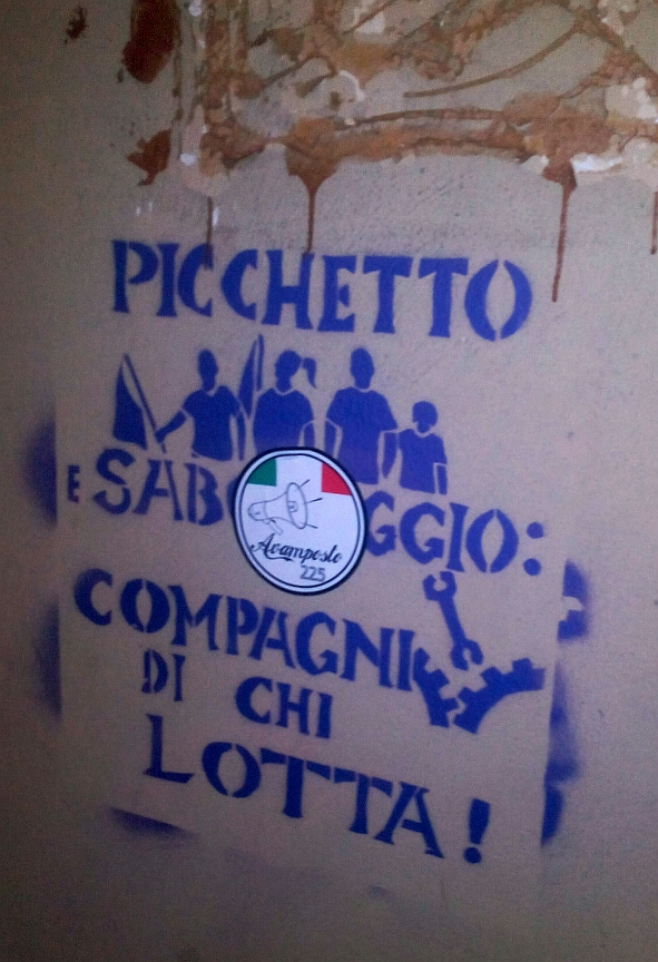 "Picchetto e sabotaggio: compagni di chi lotta" ("Picketing and sabotage: comrades of struggling people"), unhautorized stencil graffiti in Turin